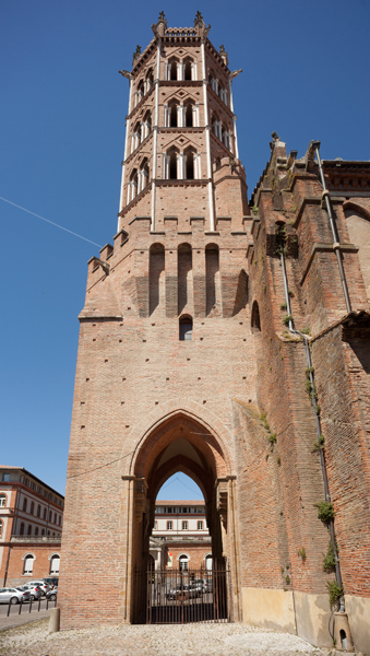 Cathédrale Saint-Antonin; Pamiers, Ariège, Midi-Pyrénées, France; ; ref: PM_093025_F_Pamiers; ancienne cathédrale; Photographer: Paul M.R. Maeyaert; © Paul M.R. Maeyaert; ; Cultural heritage; Cultural heritage/Cathedral; Europeana